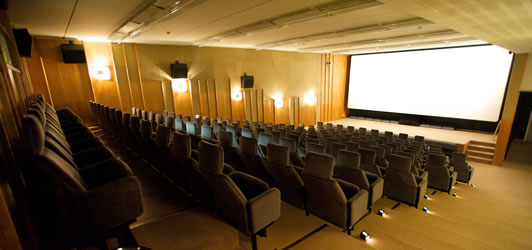 136-seat screen at cinema Studio123 located in Kuusankoski, Finland